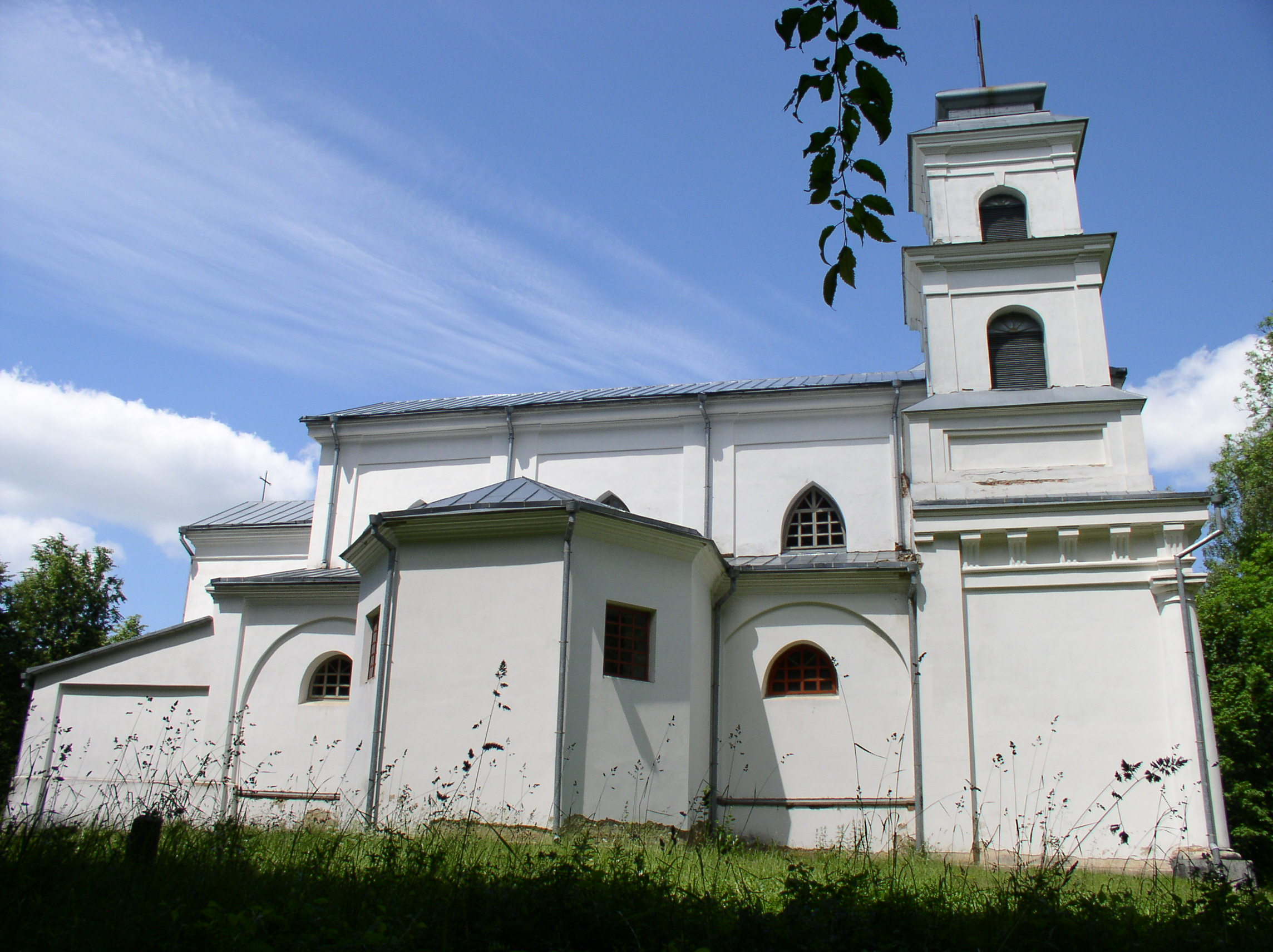 Church of Saint Anne. Varoncha, Belarus.